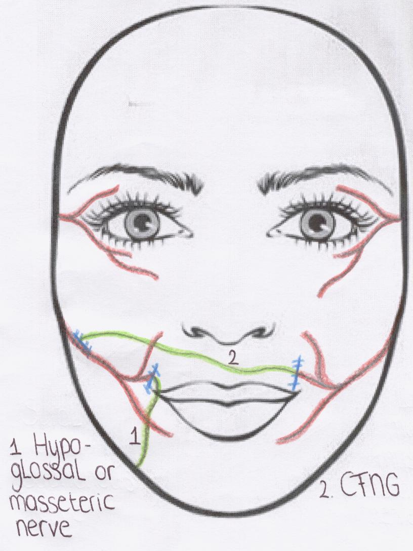 Image of the babysitter procedure in facial paralysis.